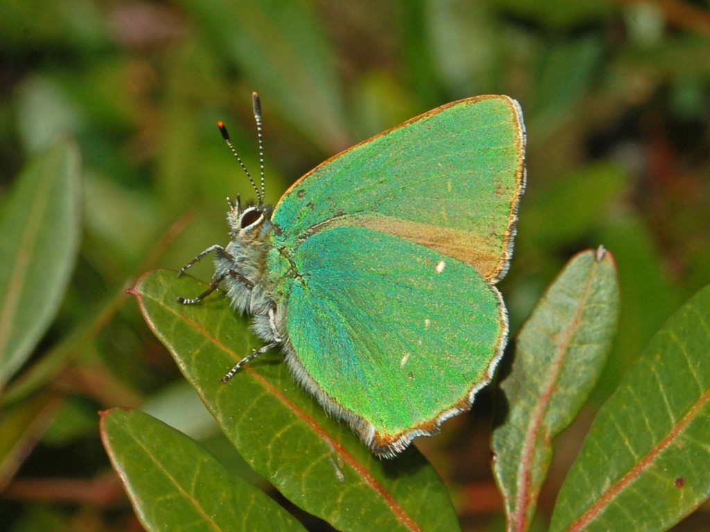 Lycaenid - Callophrys rubi